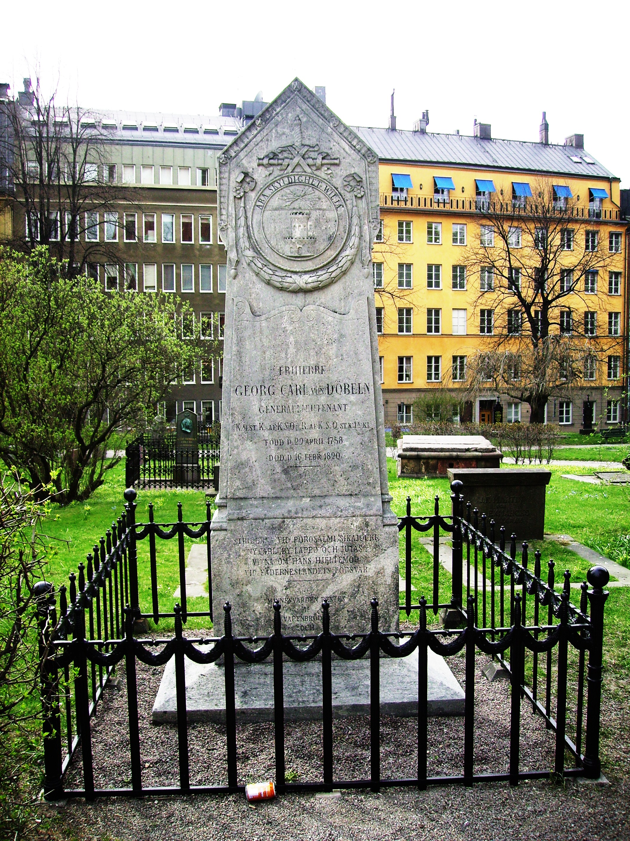 Picture of Georg Döbelns grave at Johannes churchyard